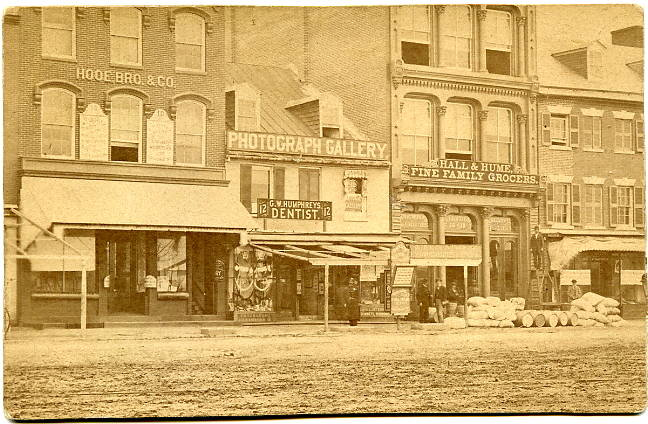 Found on eBay - undated, but probably ca. 1865. Johnson's was located at 809 Pennsylvania Avenue, NW.